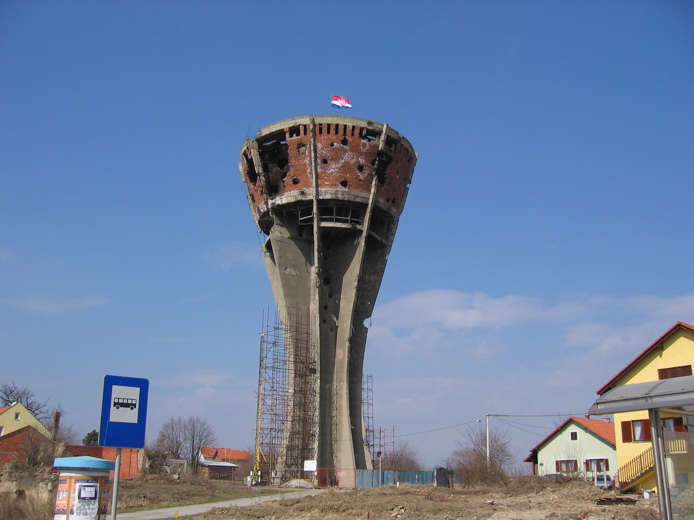 Vukovar water towerHrvatski: Vukovarski vodotoranj